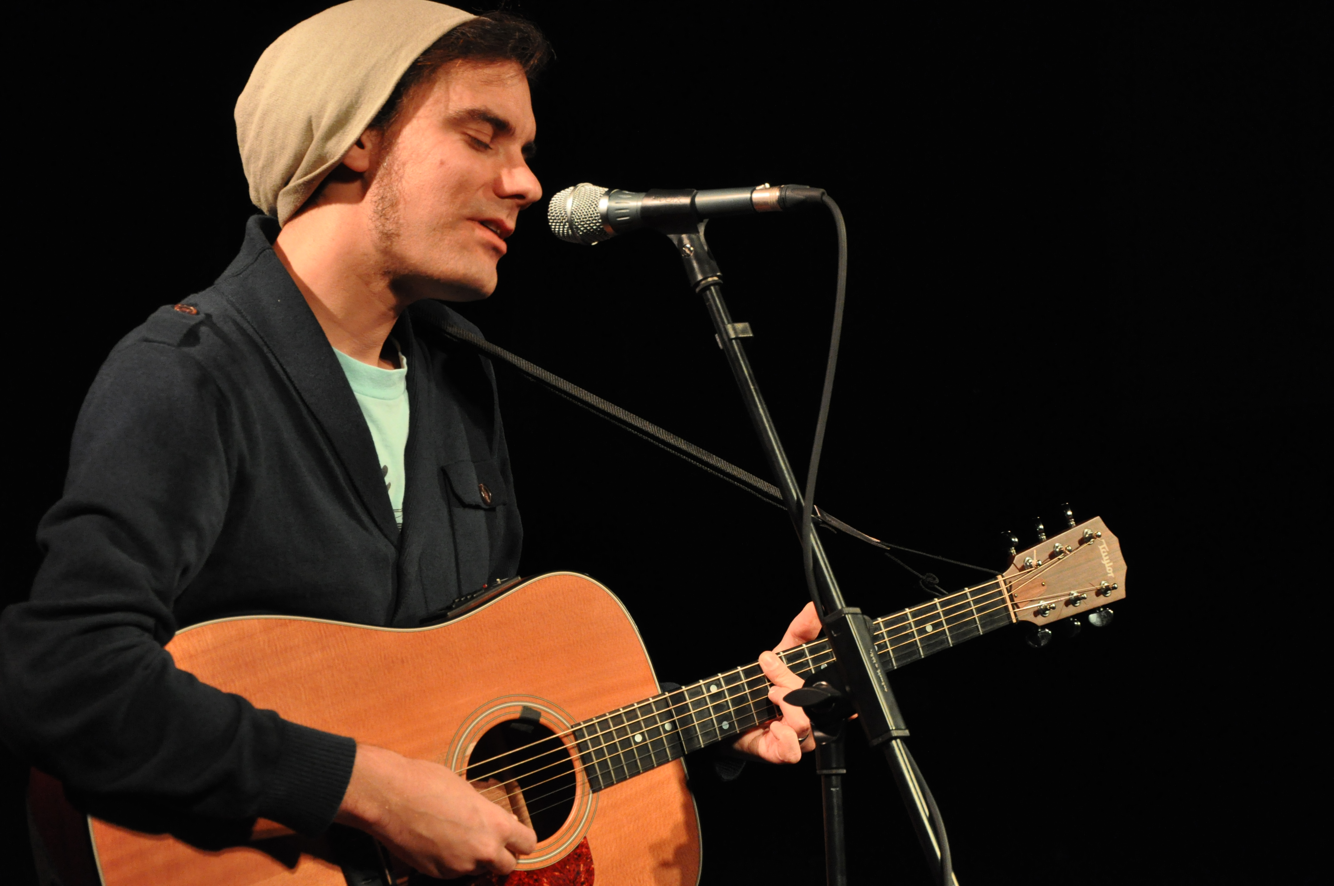 James Harries, Svitavy, Czech Republic 13.10.2012